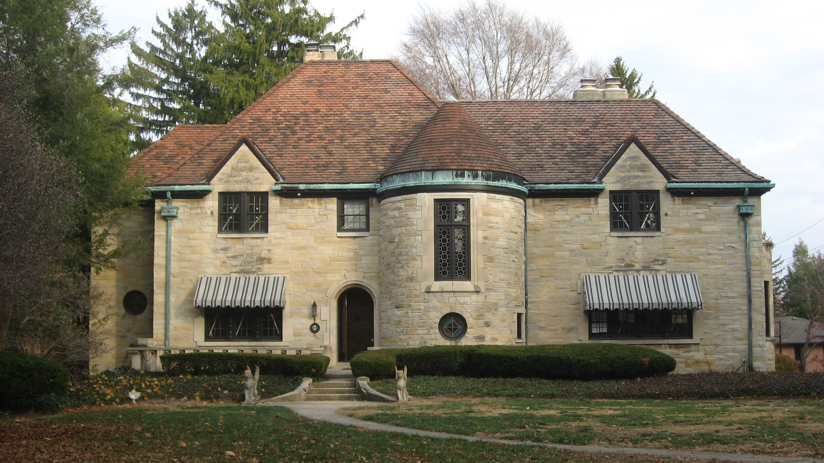 Front of the Joseph J. Cole, Jr., House, located at 4909 N. Meridian Street in Indianapolis, Indiana, United States. Built in 1924, it is listed on the National Register of Historic Places, and it is a part of a Register-listed historic district, the North Meridian Street Historic District.